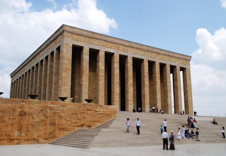 Anıtkabir in Ankara